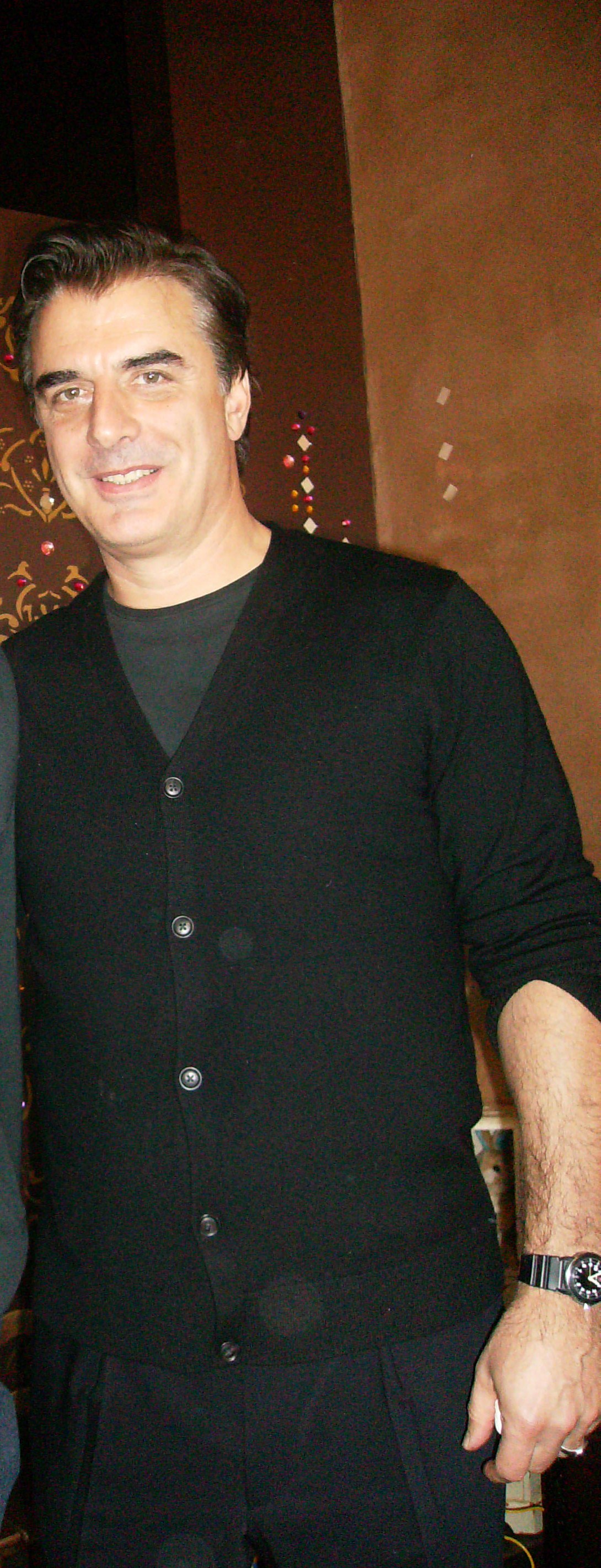 Chris Noth at his Tea Shop 'Once Upon A Tea Cup' in Windsor, Ontario, Canada on February 9th 2008. (c)Dustin Coffman